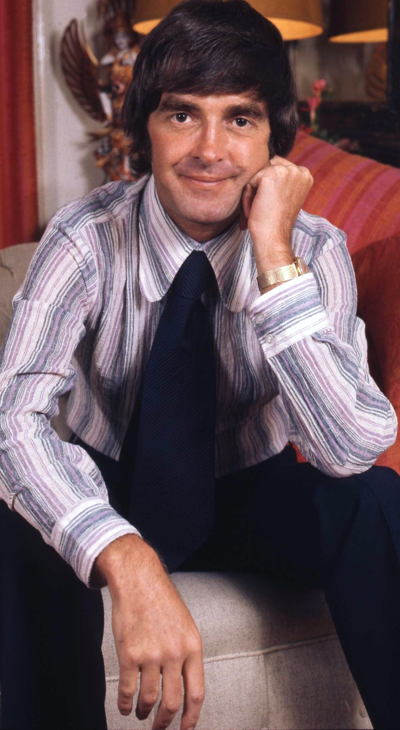 portrait of Derek Nimmo at home kensington London